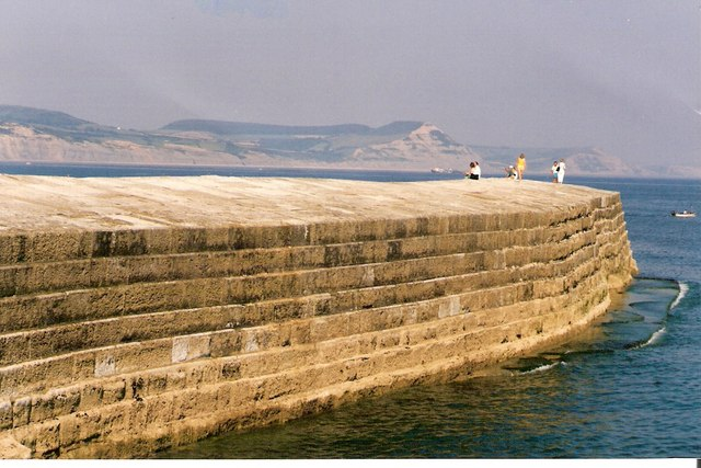 The High Wall on the Cobb, Lyme Regis The people stood to the right on the top of the High Wall, are in roughly the same position as Meryl Streep stood in the film "The French Lieutenant's Woman" by local author the late John Fowles.